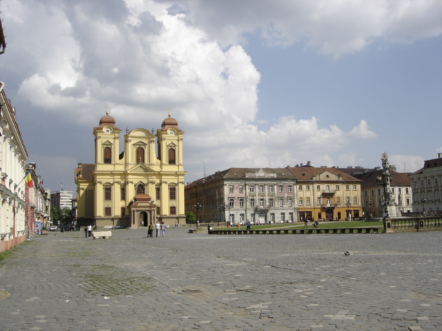 Union Square and the Roman Catholic Dome, Timisoara, Romania.